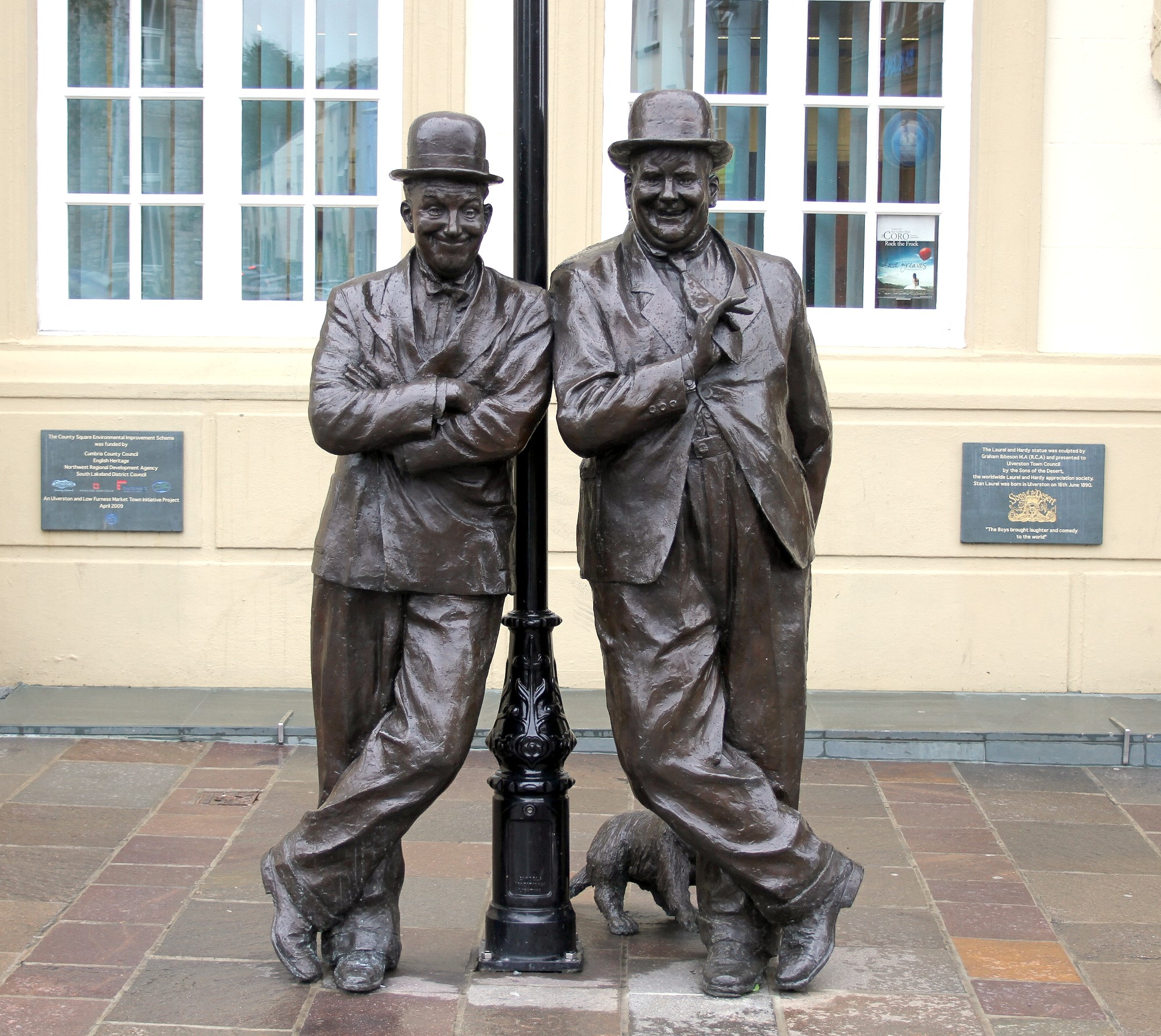 Outside the Coronation Hall, Ulverston, South Lakeland, Cumbria, England